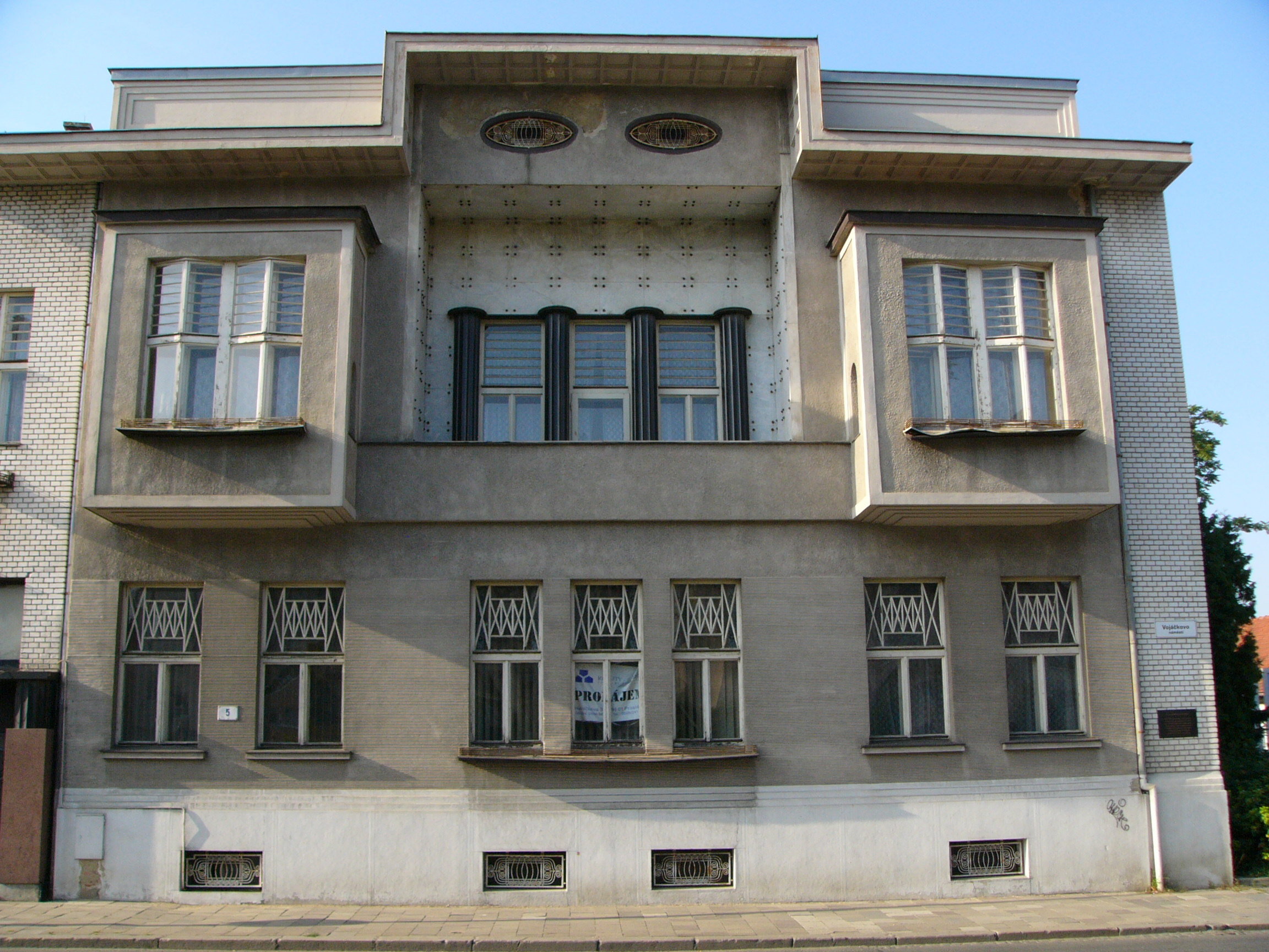 Vila of Josef Kovářík at 5 Vojáčkovo náměstí in Prostějov